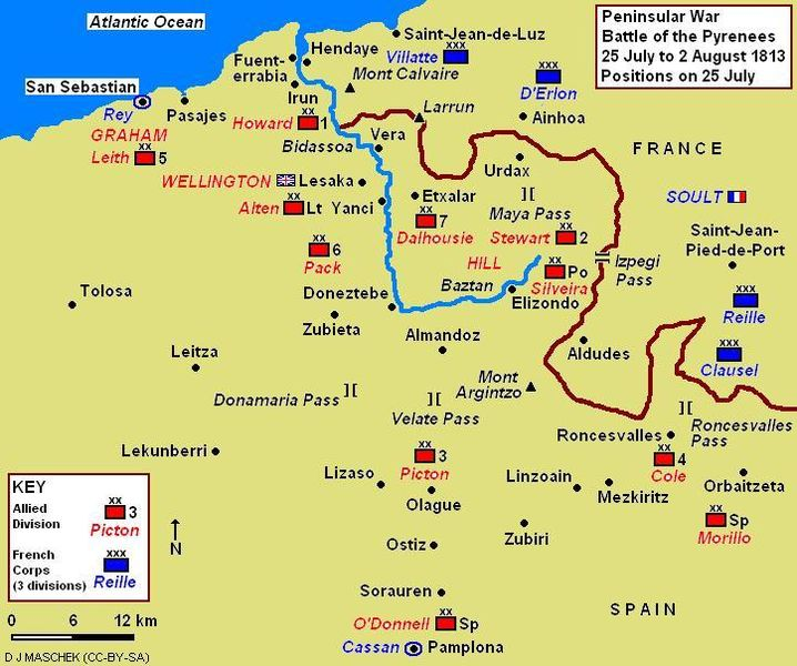 Map shows the positions of Anglo-Allied and French units in the Battle of the Pyrenees on 25 July 1813.